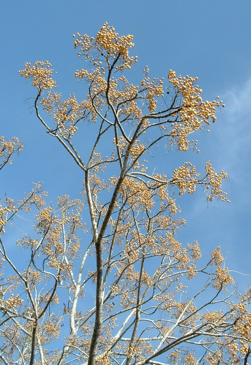 Chinaberry branches at fall: no leaves; with the poisonous fruit Photographed by myself this afternoon (Nov. 25, 2005) Fuji FinePix 2650 camera